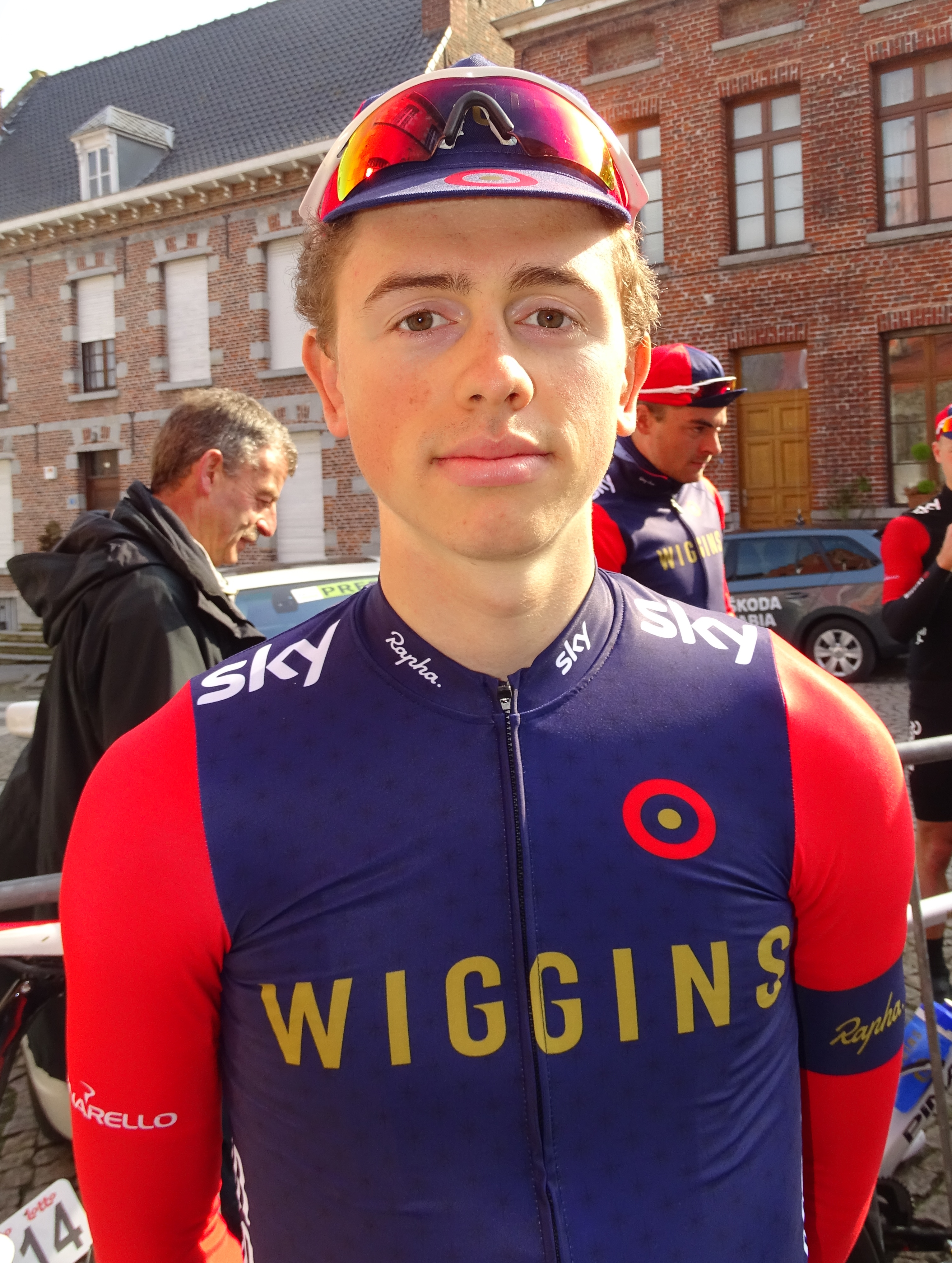 Triptyque des Monts et Châteaux 2016 Depicted person: James Knox Depicted team: Wiggins